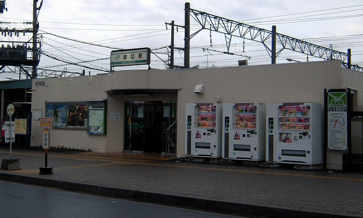 JR East Tohoku Line Iwakiri Station (Miyagino-ku, Sendai City, Miyagi, Japan)